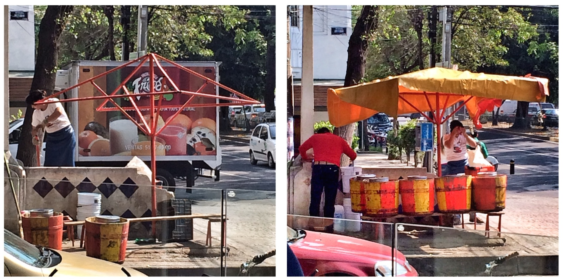 Setting up an ice cream stand in Condesa, Mexico City, 2014